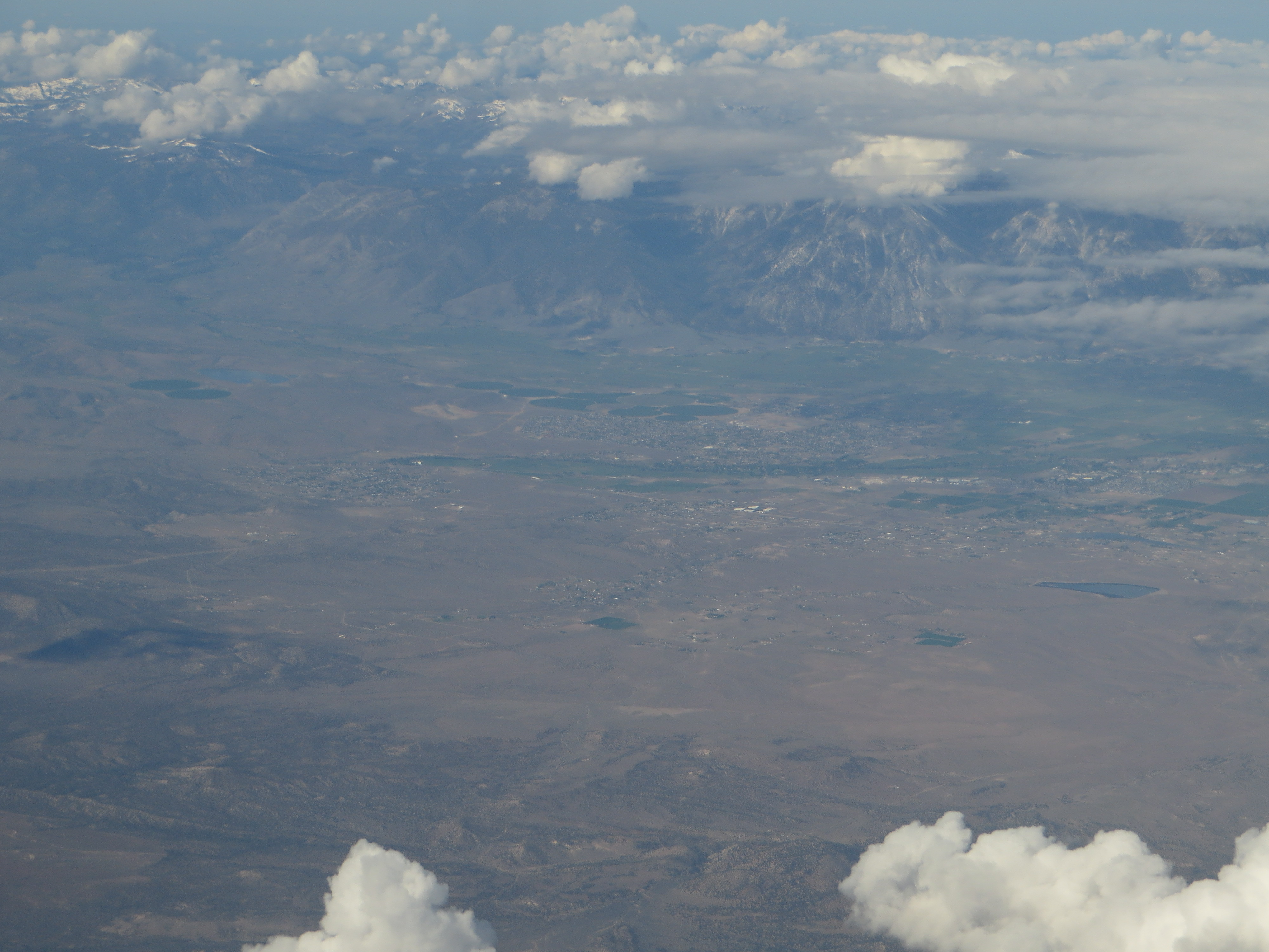 Douglas County is a county located in the northwestern part of the U.S. state of Nevada. As of the 2010 census, the population was 46,997. Its county seat is Minden. Douglas County comprises the Gardnerville Ranchos, NV Micropolitan Statistical Area, which is also included in the Reno-Carson City-Fernley, NV Combined Statistical Area. Douglas County holds the first permanent settlement in Nevada. The town of Genoa was originally settled in 1851 by Mormon traders selling goods to settlers on their way to California. Named for Stephen A. Douglas, famous for his 1860 Presidential campaign and debates with Abraham Lincoln, Douglas County was one of the first nine counties formed in 1861 by the Nevada territorial legislature.